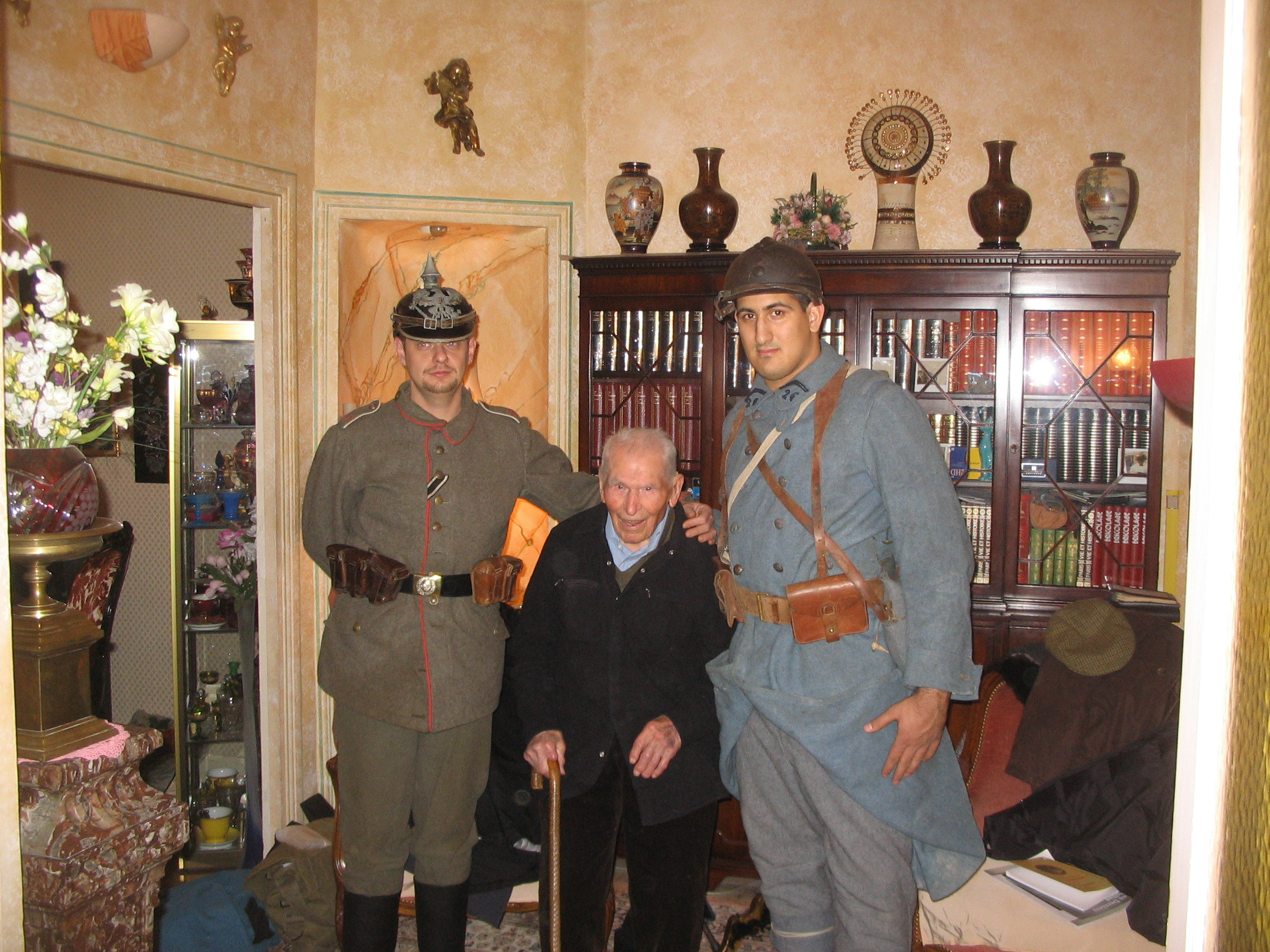 Lazare Ponticelli (born December 7, 1897) is, at age 110, the last fully verified French veteran of the First World War between two reenactment members dressed in old uniforms